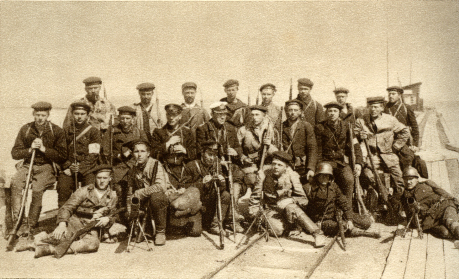 Estonian Marines in May 1919, in the middle commander T. Kraus